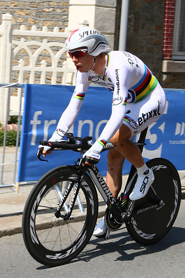 Martin wearing the colours of the World champion during stage 11's TT at the 2013 TDF.